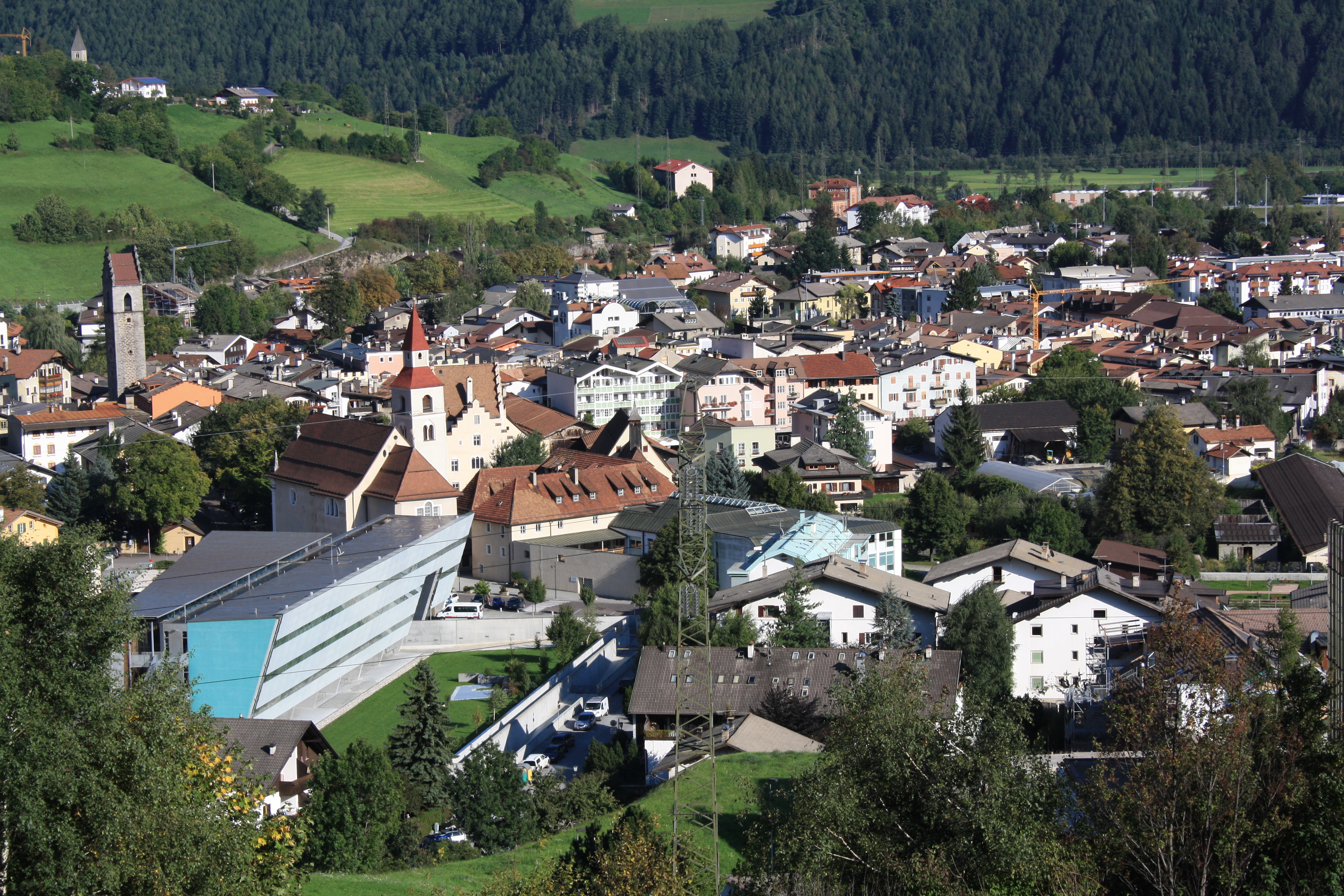 Italy, South Tyrol, Sterzing.Sight of the inner town.